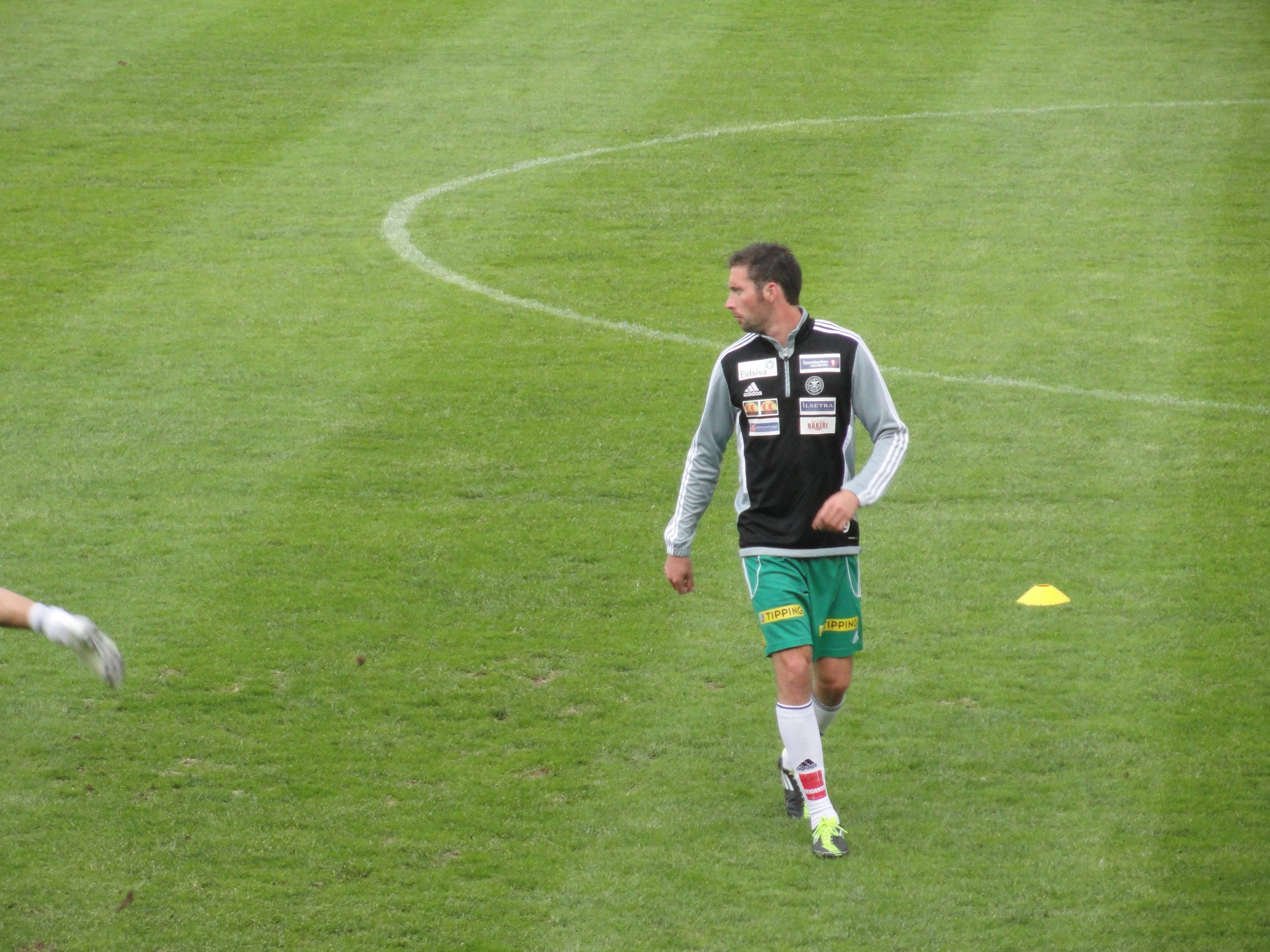 Picture of Lars Eirik Bredvold